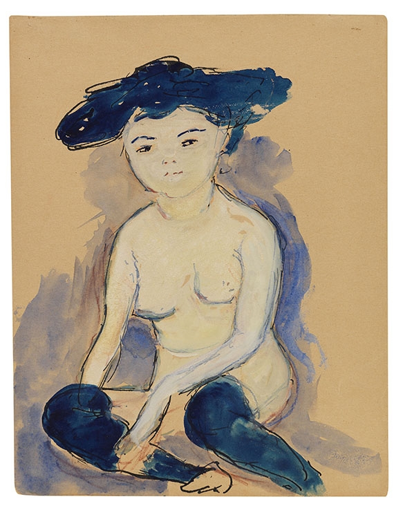 Helene. Painting by Marianne von Werefkin. (Helene = Helene Nesnakomoff)